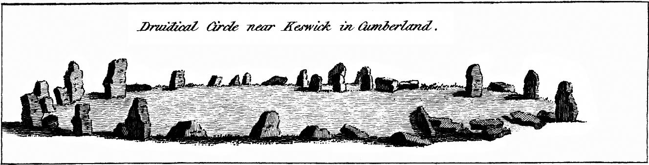 Druidical Circle near Keswick in Cumberland.